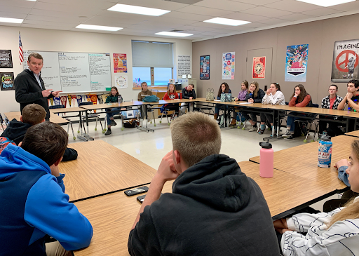 The seniors at @KennettHighScho were prepared with questions tougher than some debate moderators this week! Thank you to Social Studies Teacher Kat Murdough for inviting us.